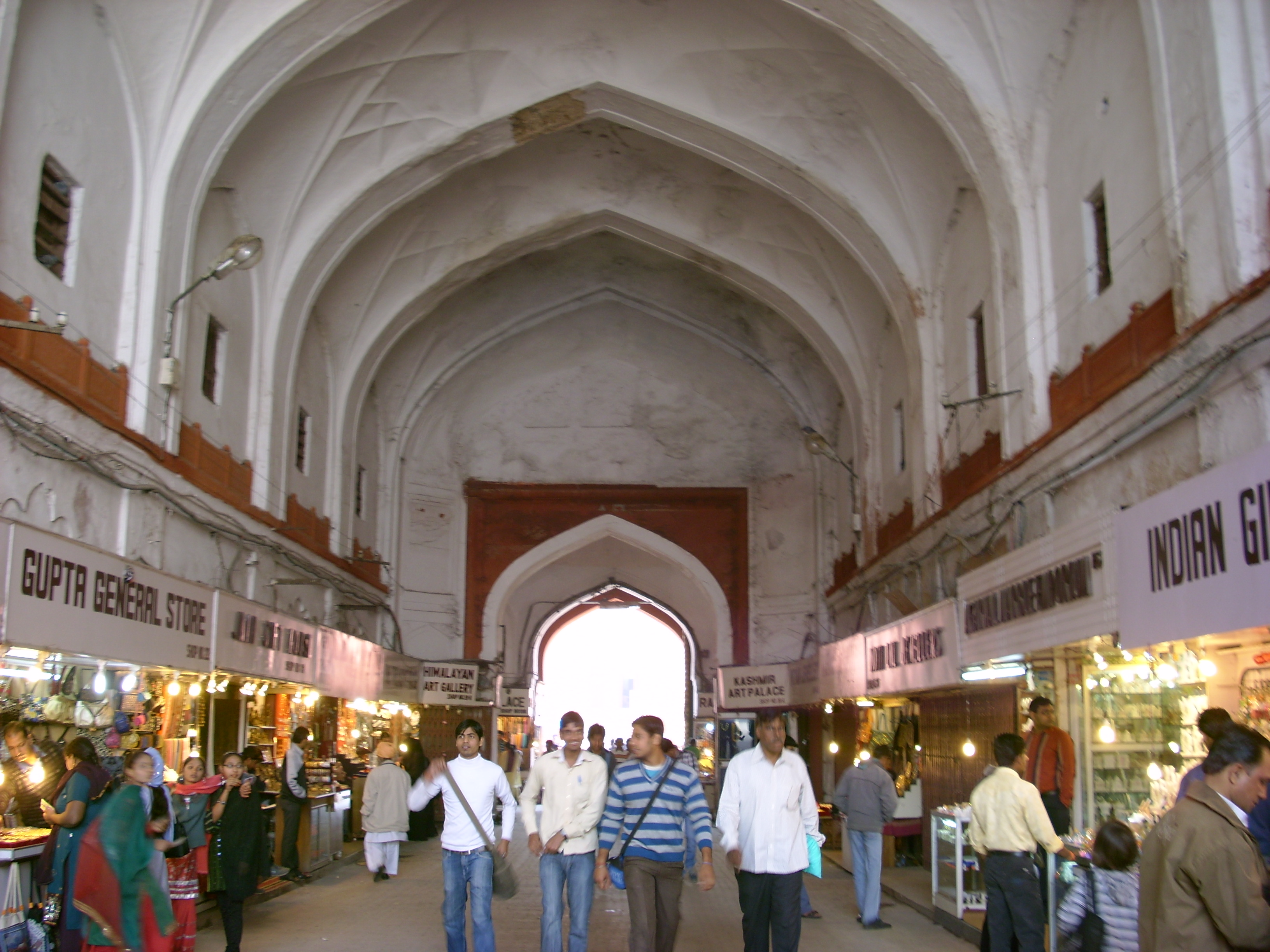 Fortification Wall Asad Burj, Water gate, Delhi Gate, Lahori Gate, Jahangiri Gate, Chhattra Bazar, Baoli